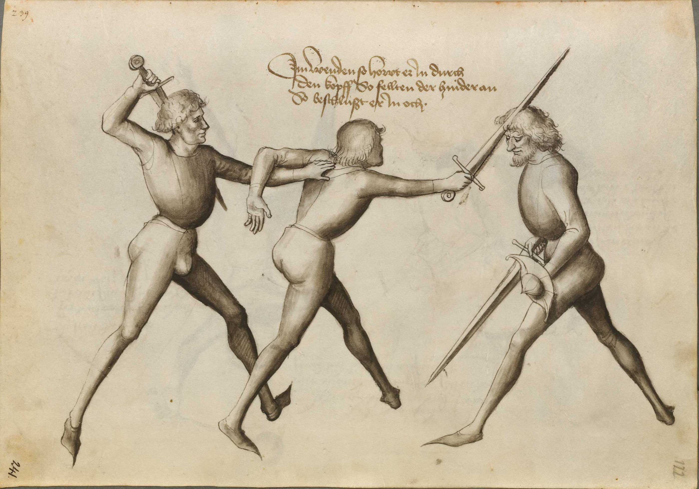 This is a scan of the historical Fechtbuch ('fencing book') by German fencing master Hans Talhoffer.